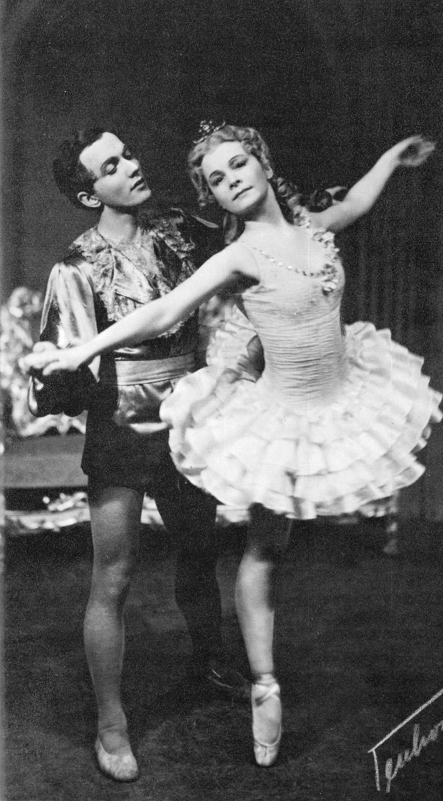 Photograph of the Finnish dancers Olavi Kuorikoski (1918–1992) and Hannele Keinänen (1929–) in roles of The Nutcracker by P. I. Tchaikovsky.